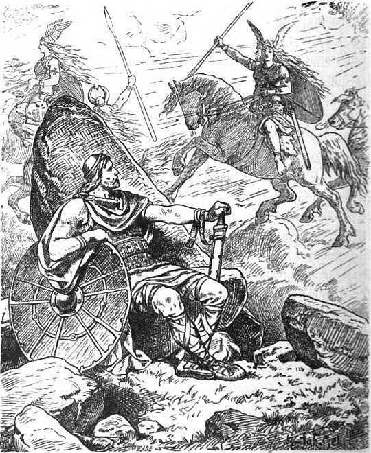 "Helgi und Sigrun" (1901) by Johannes Gehrts. Helgi Hundingsbane looks on while the valkyrie Sigrun raises her spear in the distance.